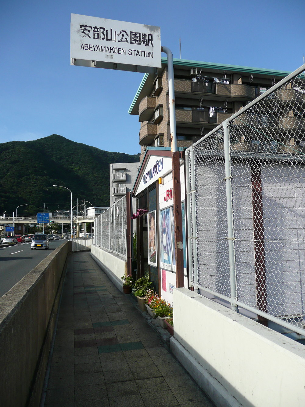 Nippo Main Line Abeyamakoen Station